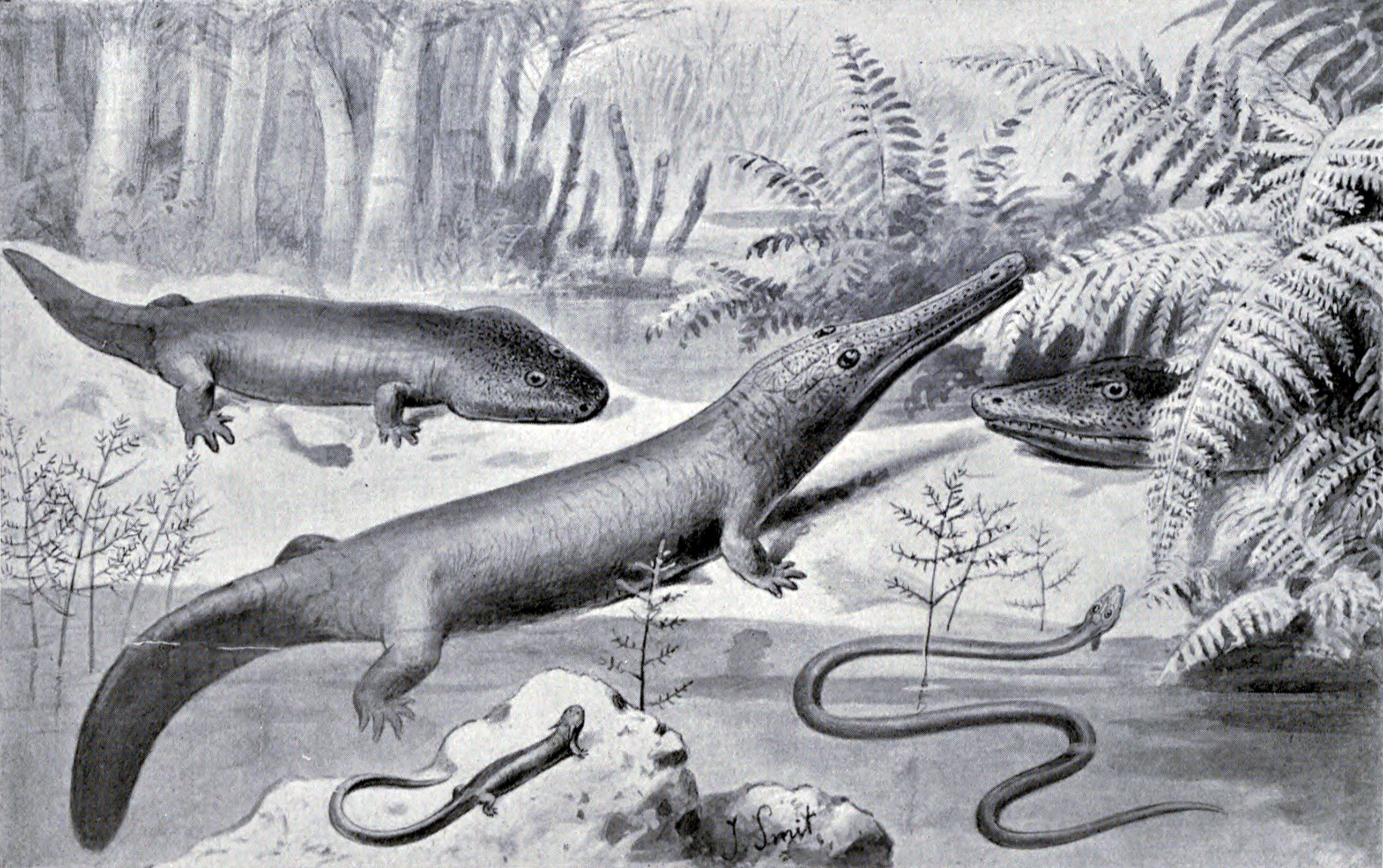 Actinodon, Ceraterpeton, Archegosaurus, Dolichosoma, and Loxomma.